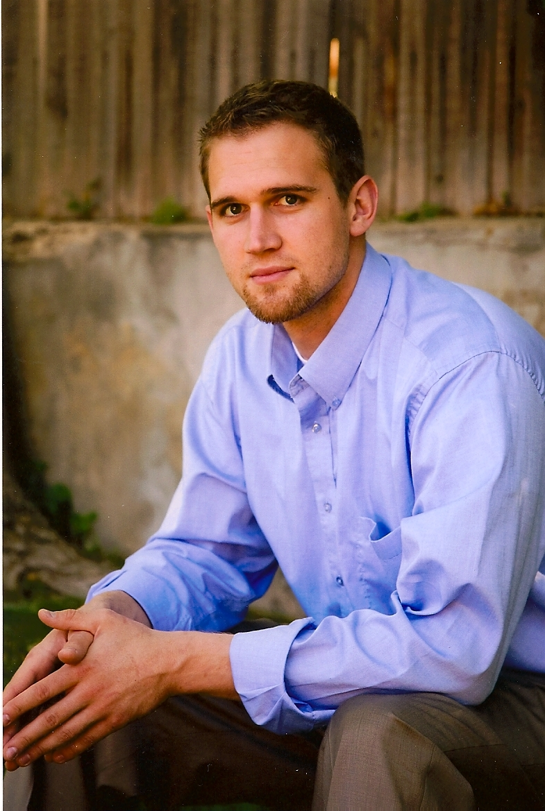 Lance Allred, an American professional basketball player.